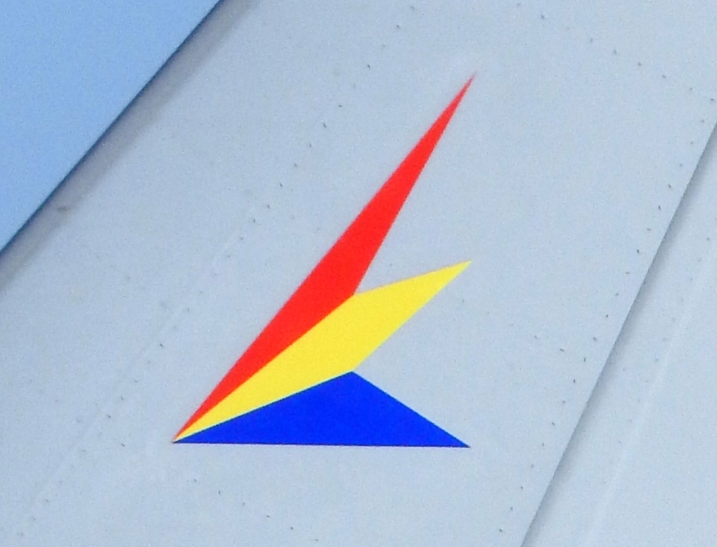 The tail marking on a Kawasaki T-4 of the Central Air Command Support Squadron seen at the Iruma Air Show in 2016